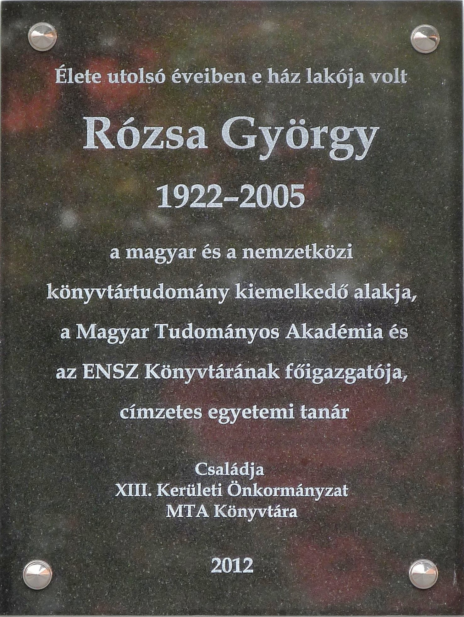 Commemorative plaque to Mr. György Rózsa (1922–2005) Hungarian Librarian, Director General of the Library of the Hungarian Academy of Sciences, professor emeritus. It is affixed to the wall of the building where he lived. The plaque was unveiled on 12 October 2012. (Budapest, District XIII, Csanády Street Nr 4/b).